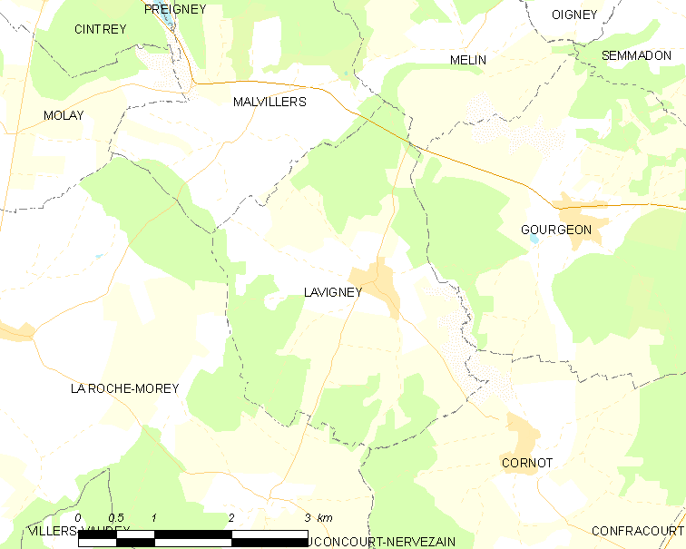 Map of French municipality